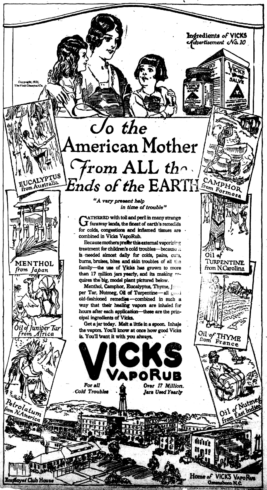 Newspaper ad showing the Vicks Vaporub factory, and the internationally sourced ingredients.